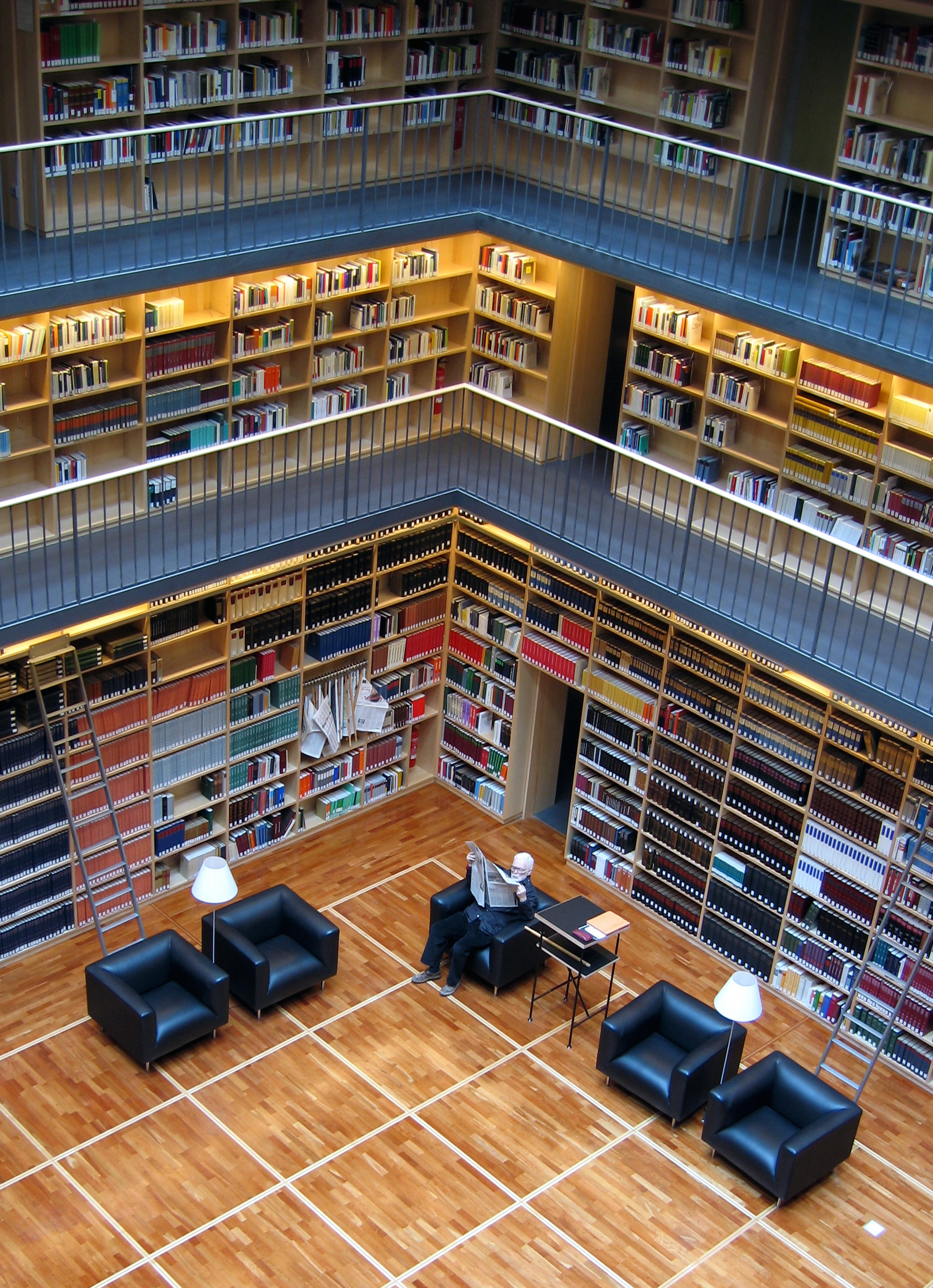 The Bücherkubus (bookcube) of the study center of the Herzogin Anna Amalia Bibliothek (the Duchess Anna Amalia Library) in Weimar, Germany.